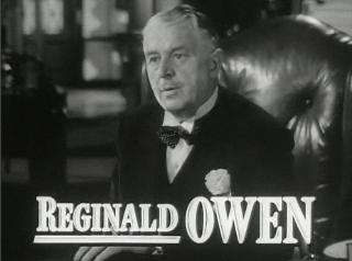 Cropped screenshot of Reginald Owen from the trailer for the film The Miniver Story